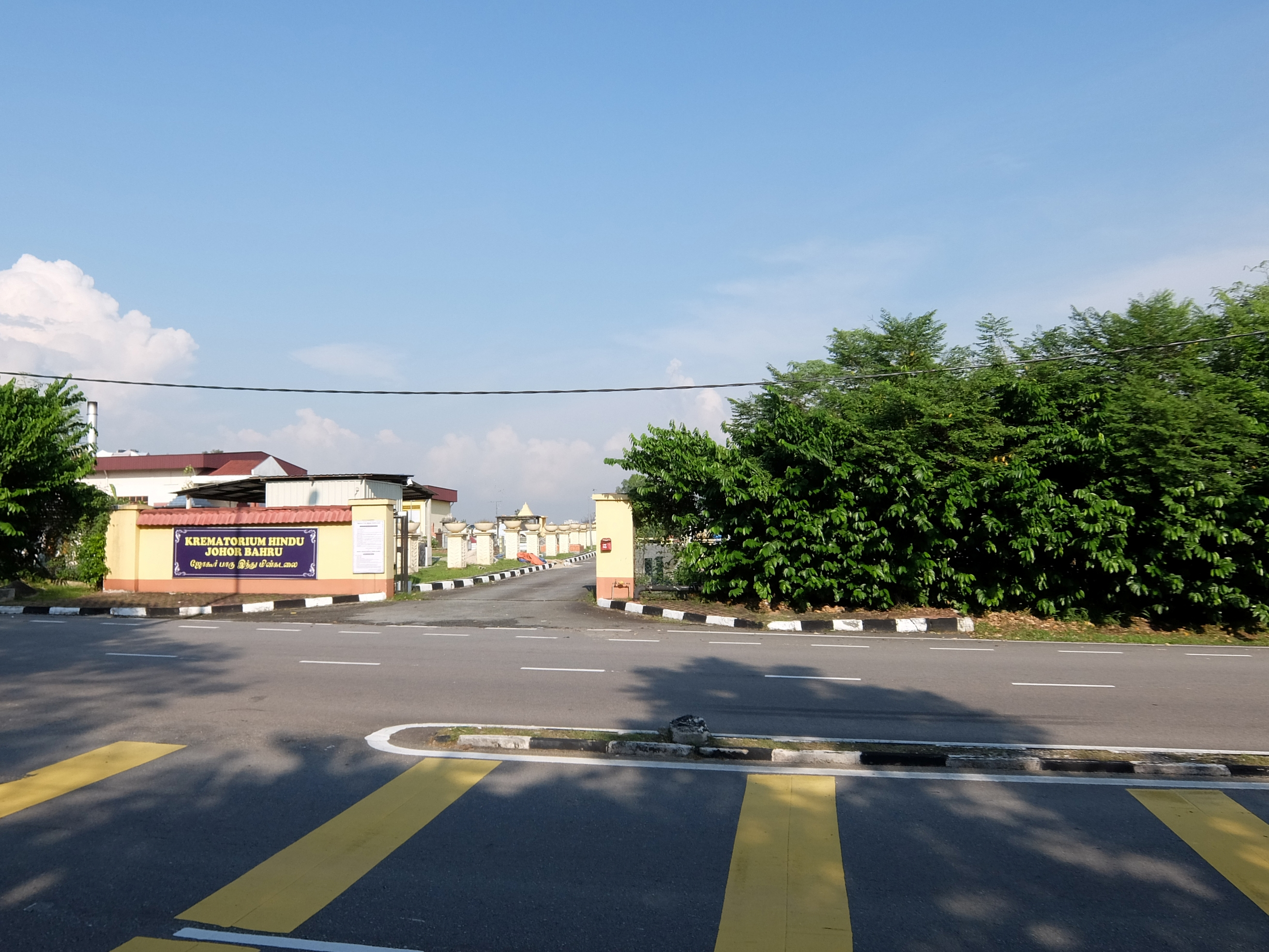 Johor Bahru Hindu Crematorium, Johor Bahru, Johor, Malaysia